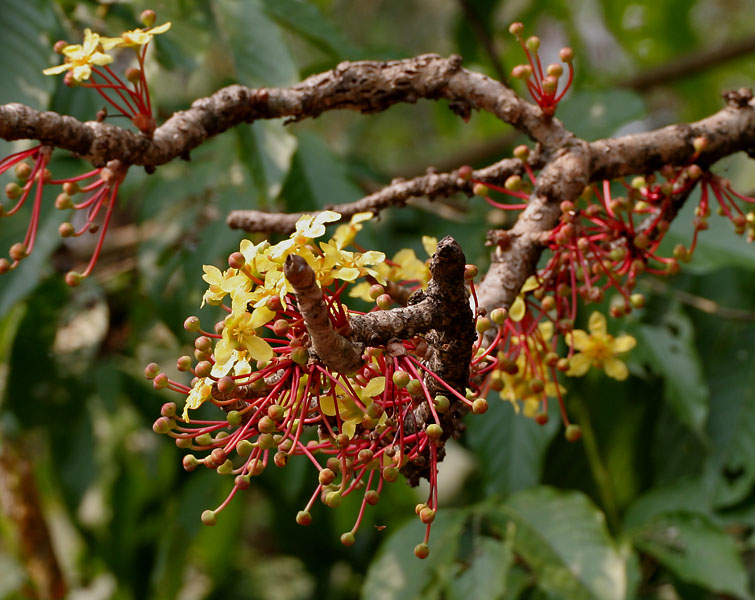 Dillenia pentagyna at Jayanti in Buxa Tiger Reserve in Jalpaiguri district of West Bengal, India.